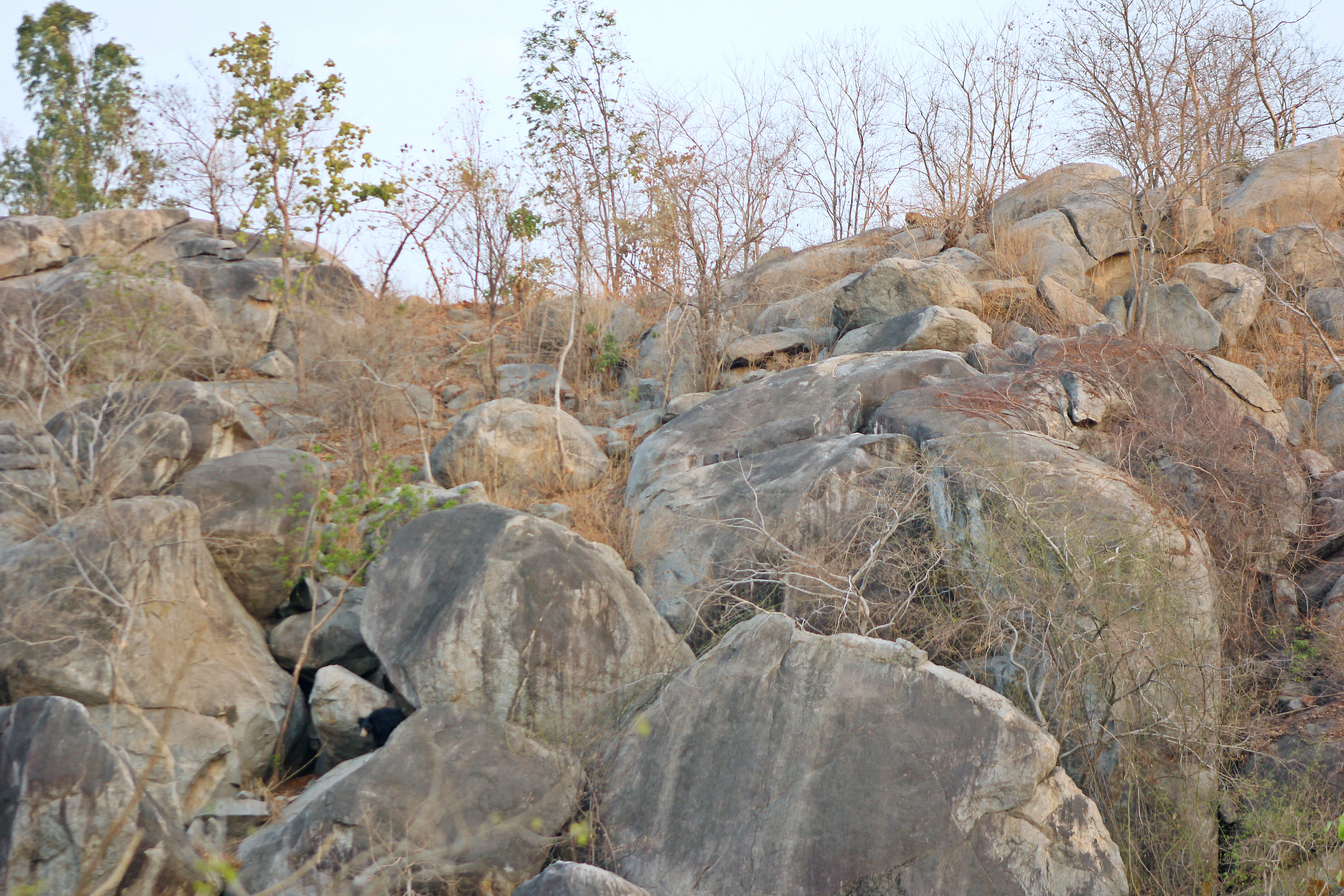 A female sloth with her 2 cubs (2-2.5 years old) and a male Indian leopard residing on a small mountain, distance between their caves is hardly 100 meters. Observed them for more than a year in 2016 and early 2017 at Ratanmahal Sloth Bear Sanctuary, Dahod, Gujarat, India. Probably one of its kind documentation unveiling their behavior of both the species.